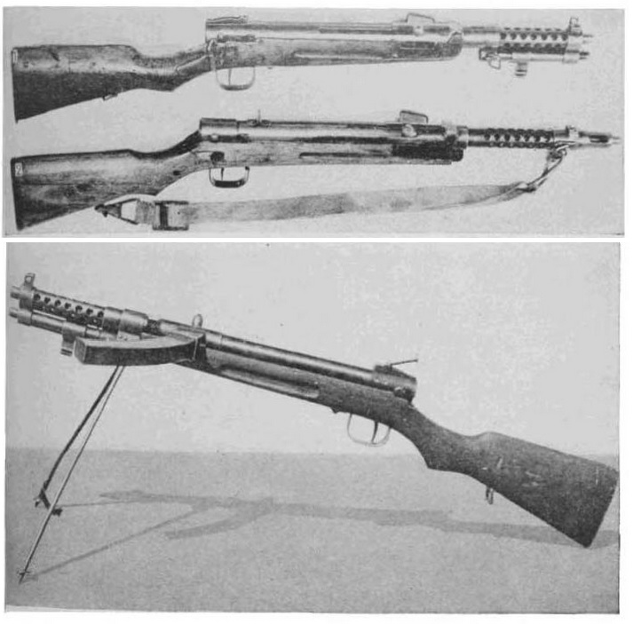 Type 100 8 mm japanese submachine gun. Above, the paratroop version, the latest type in the middle. Below, first version with bipod.